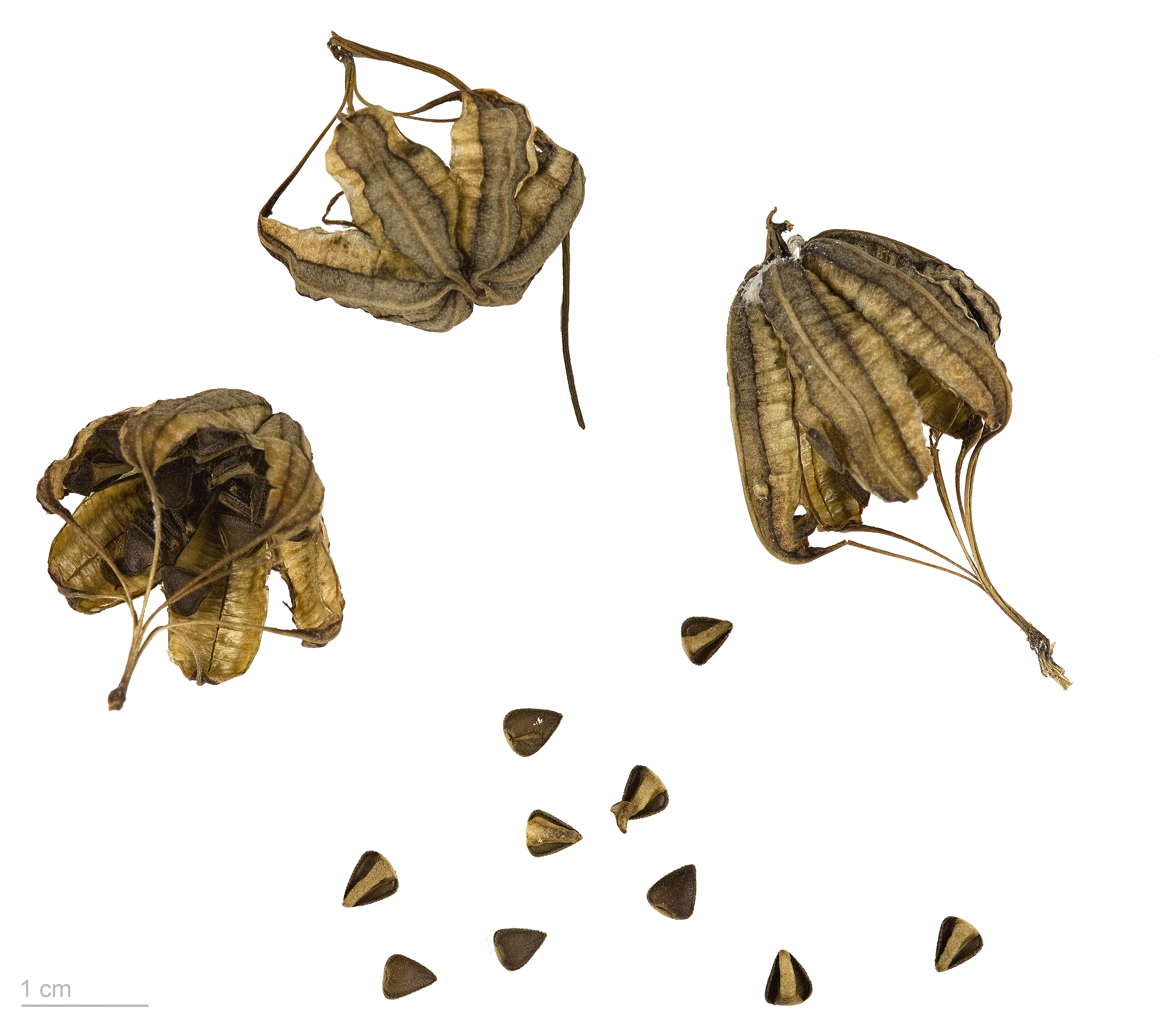 White Veined Hardy Dutchman's Pipe, fruits and seeds